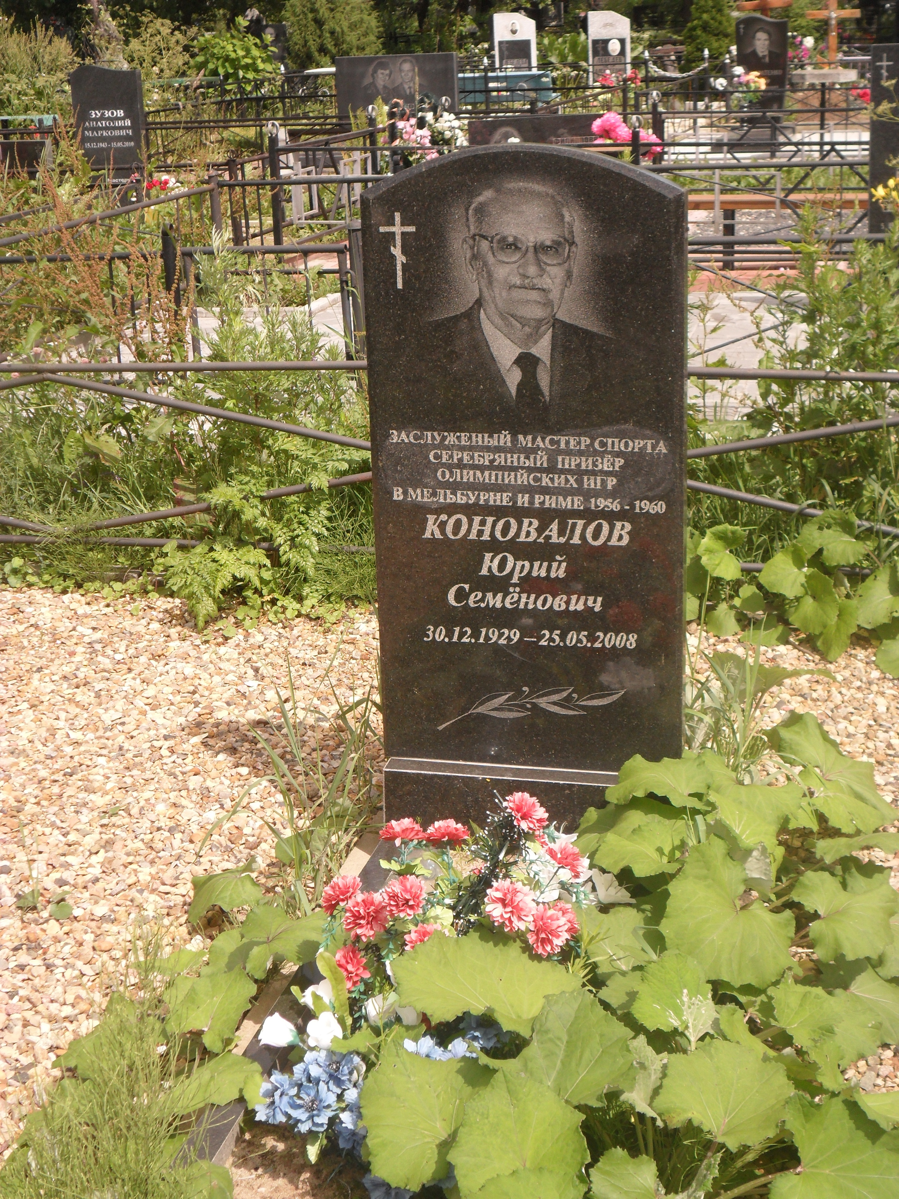 Tomb of the honored master of sports of the USSR Yuri Konovalov on the Smolensk cemetery Odintsovo.